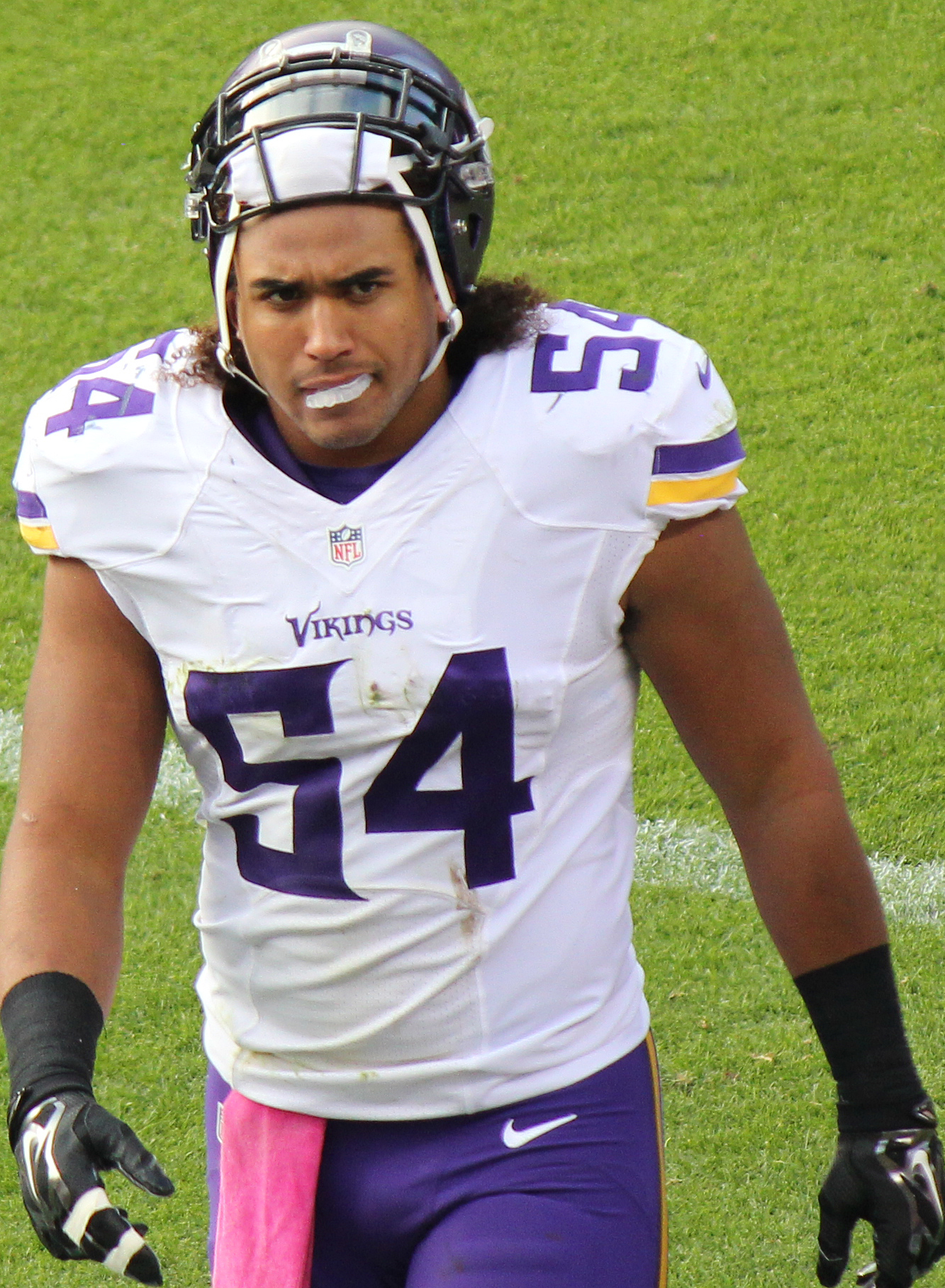 Eric Kendricks, a player on the National Football League.